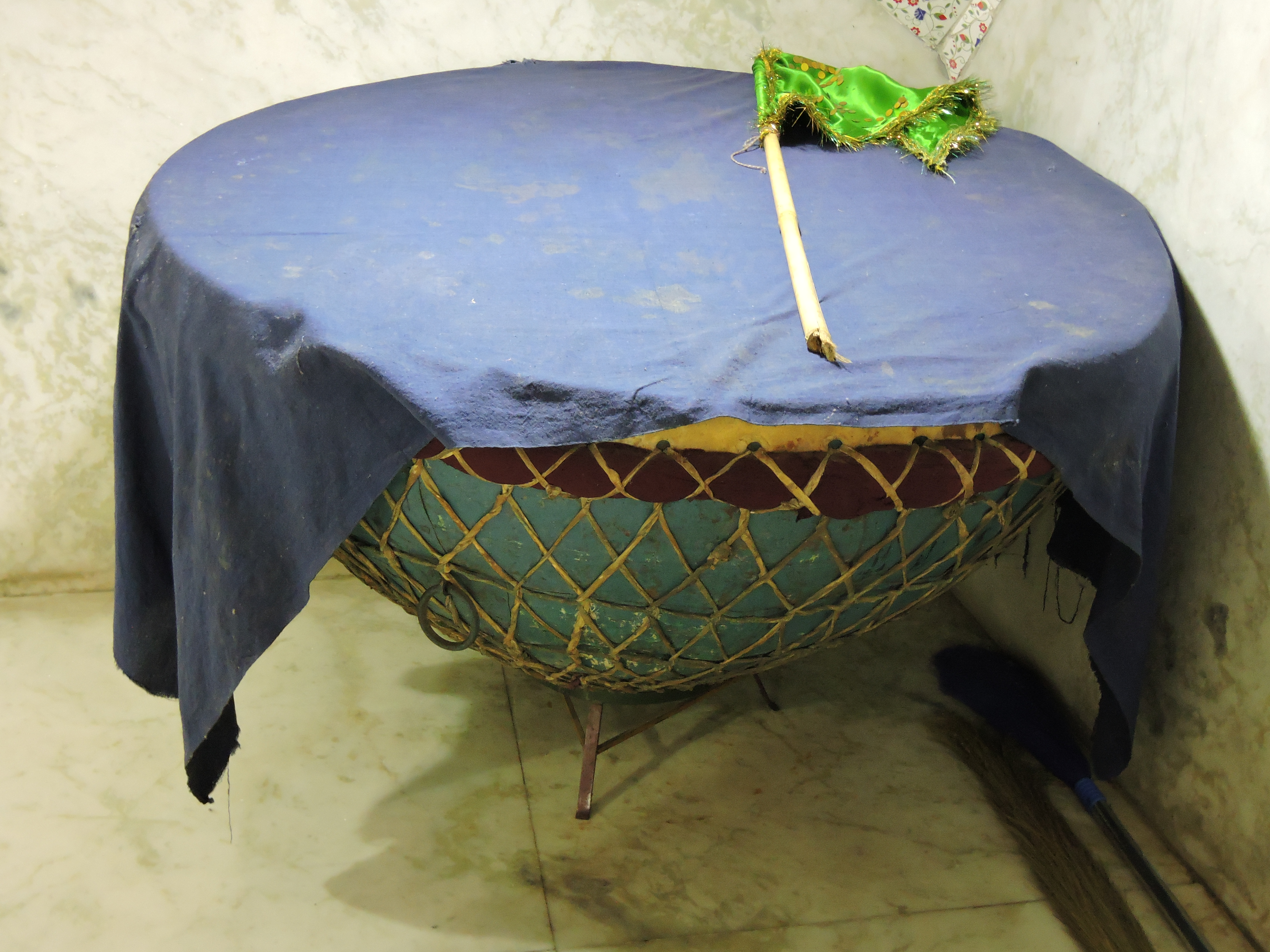 Nagarra , the musical instrument used at religious places of India